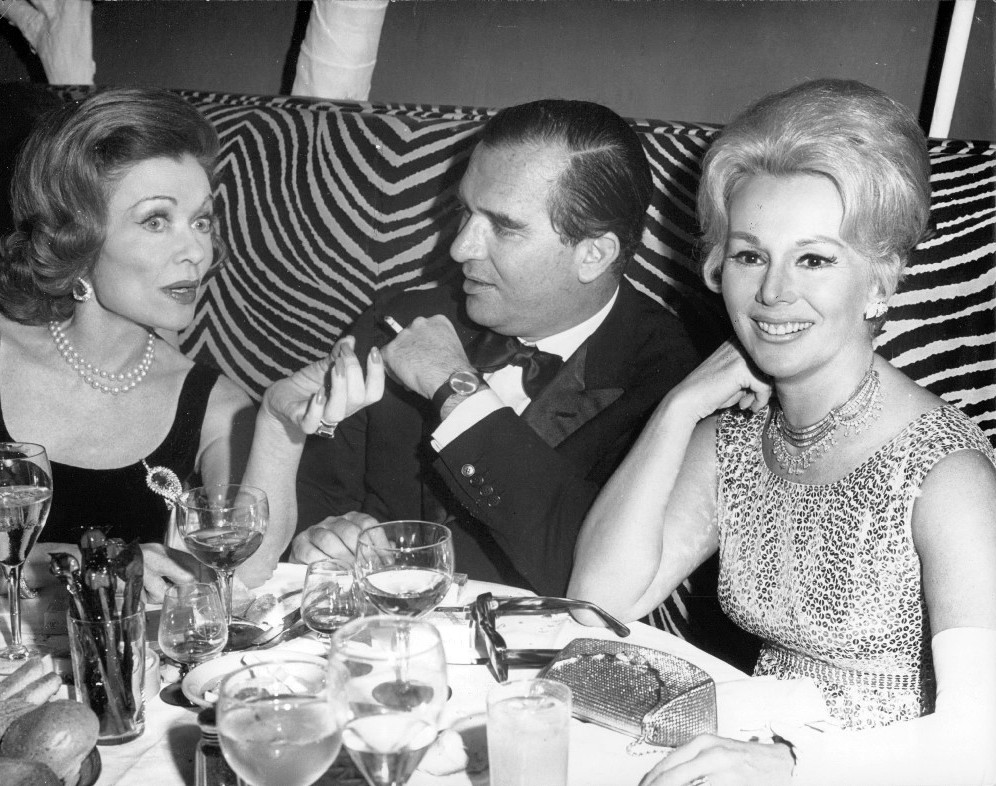 Photo of the interior of the El Morocco night club in New York City. The seating was upholstered in blue and white zebra-patterned fabric and was unique to the nightspot. Because of the upholstery, everyone knew whether a celebrity was photographed at El Morocco. Celebrity columnists made their headquarters at the New York night clubs; Ed Sullivan was based at El Morocco in his newspaperman days, while Walter Winchell had a permanent place at the Stork Club's table 50 in the club's Cub Room.